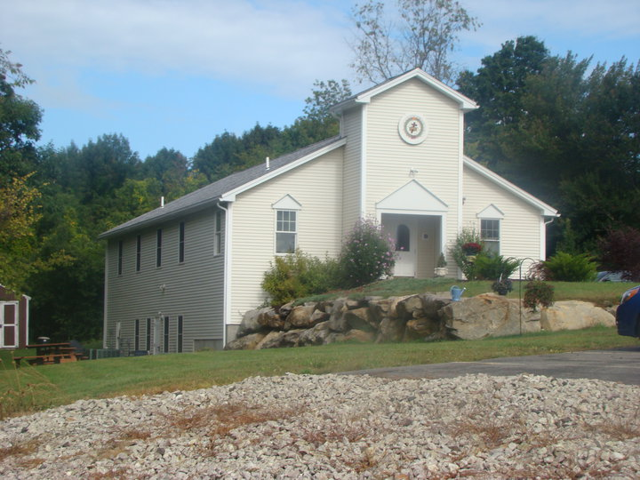 Christian Belivers Fellowship Church, 32 Chapel Lane Somersworth, NH 03878